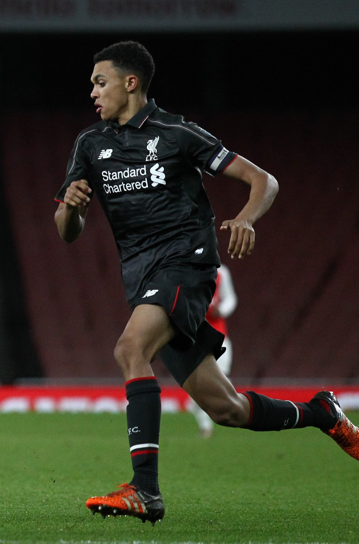 Trent Alexander-Arnold of Liverpool U18s during the game against Arsenal.